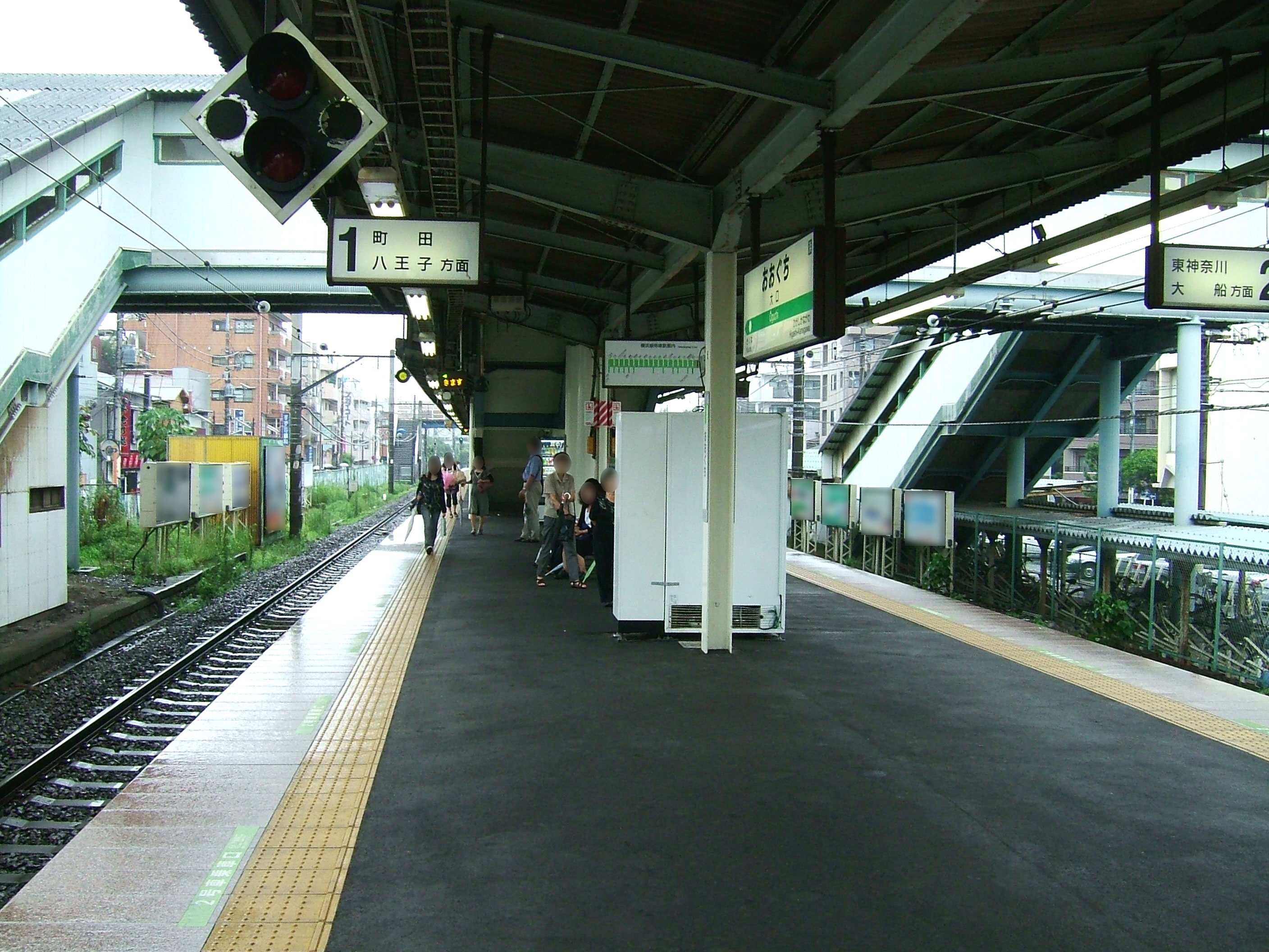 Ōguchi Station platform (East Japan Railway Yokohama Line)